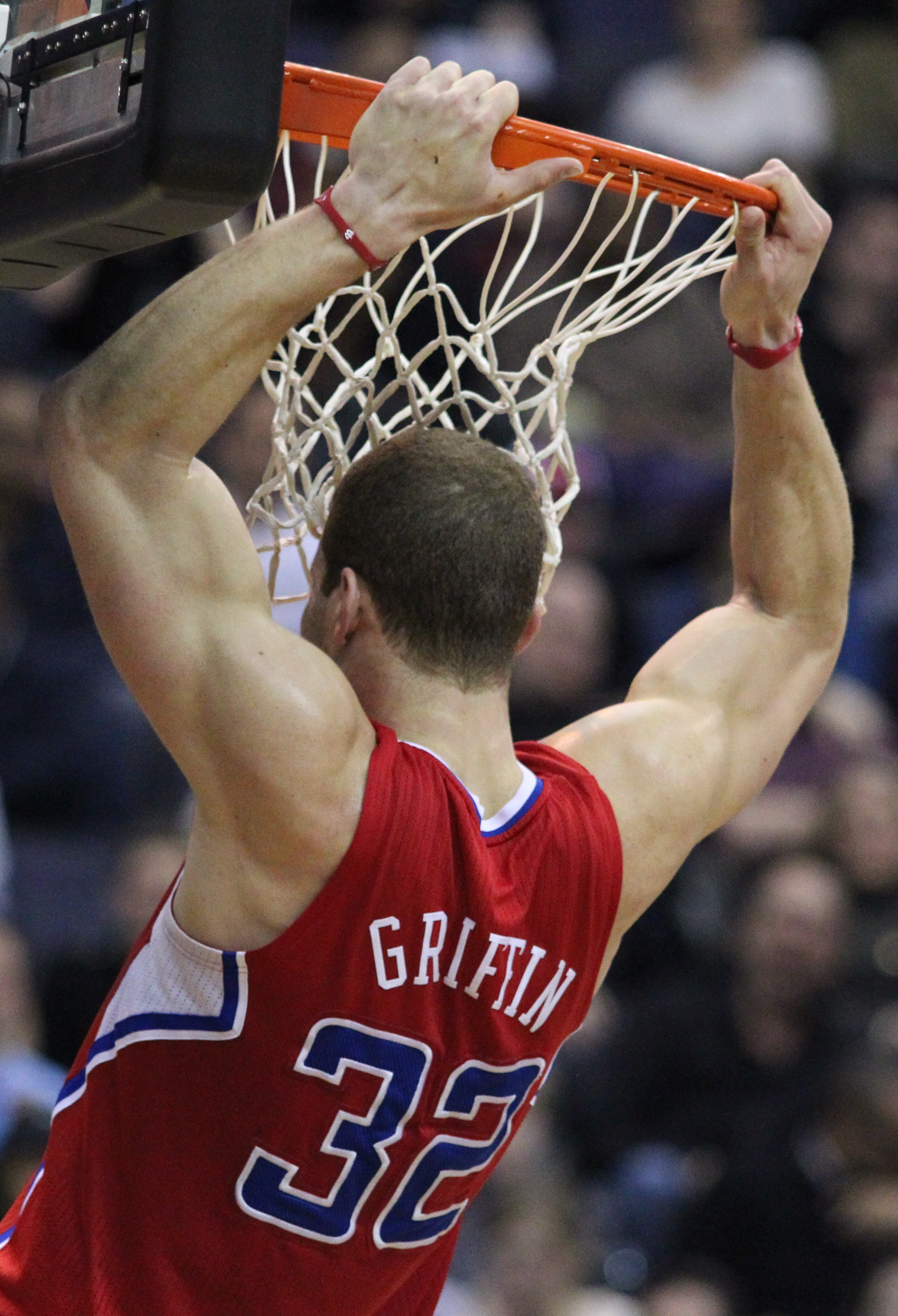 Los Angeles Clippers Blake Griffin during a game against the Washington Wizards at the Verizon Center in Washington on March 12, 2011.